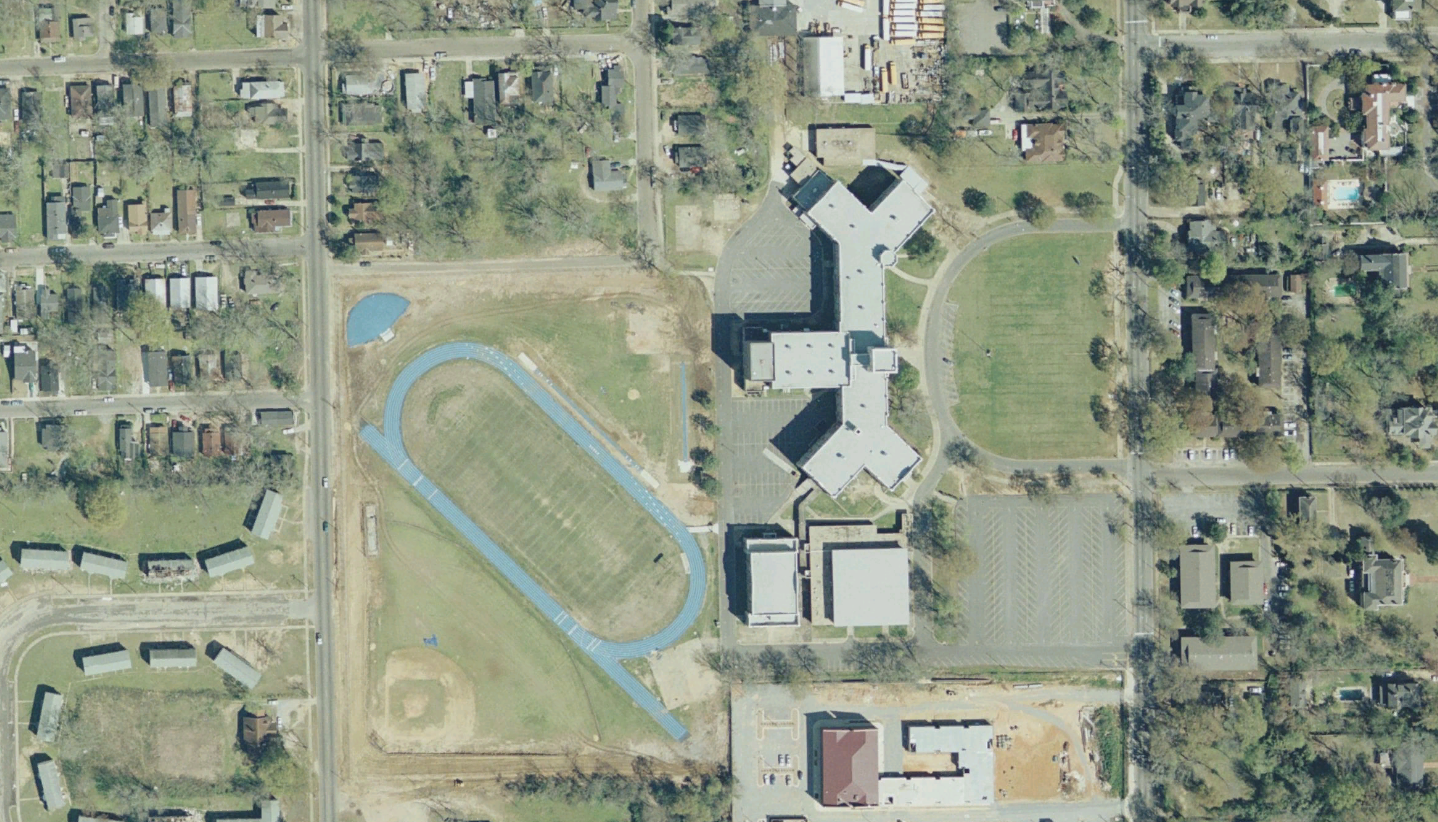 Sidney Lanier High School in Montgomery, Alabama. USGS data via NASA World Wind.